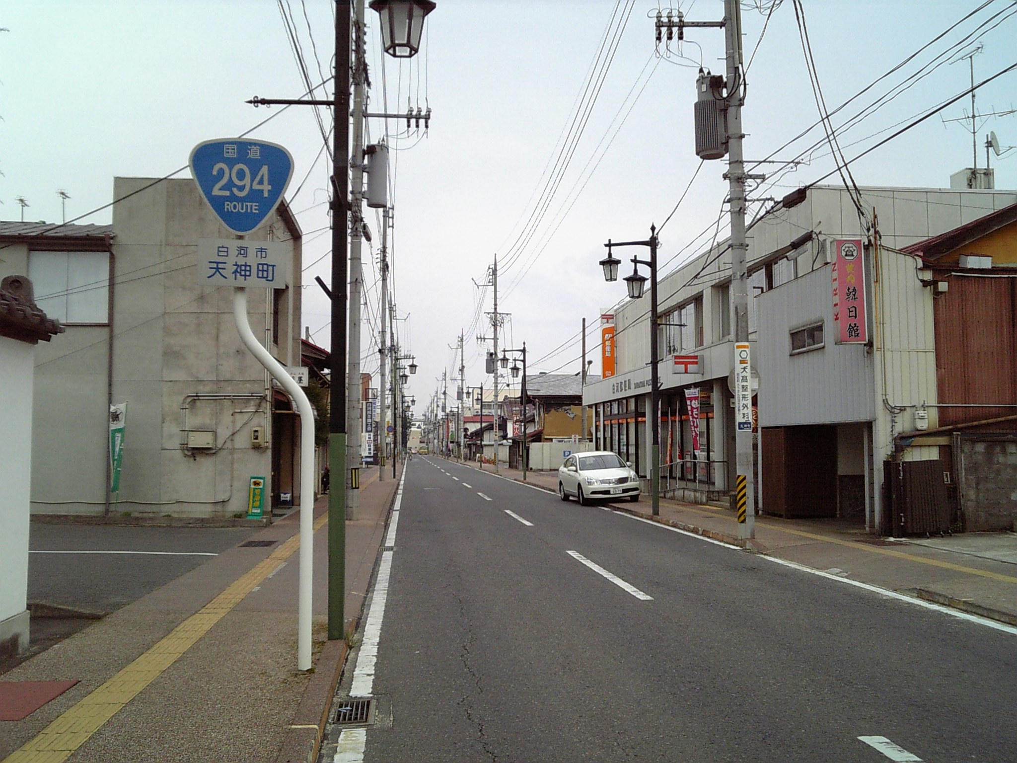 National Road No. 294 (in the city of Shirakawa, Fukushima Prefecture)